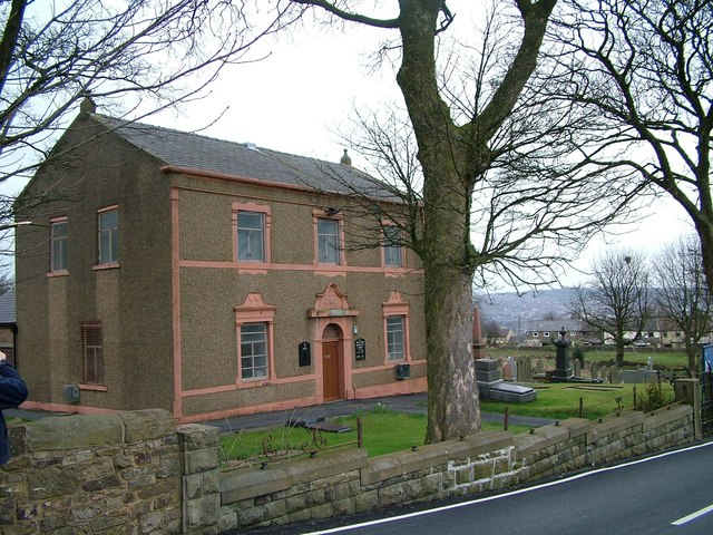 New Row Methodist Church, Heys Lane, Blackburn, Lancashire